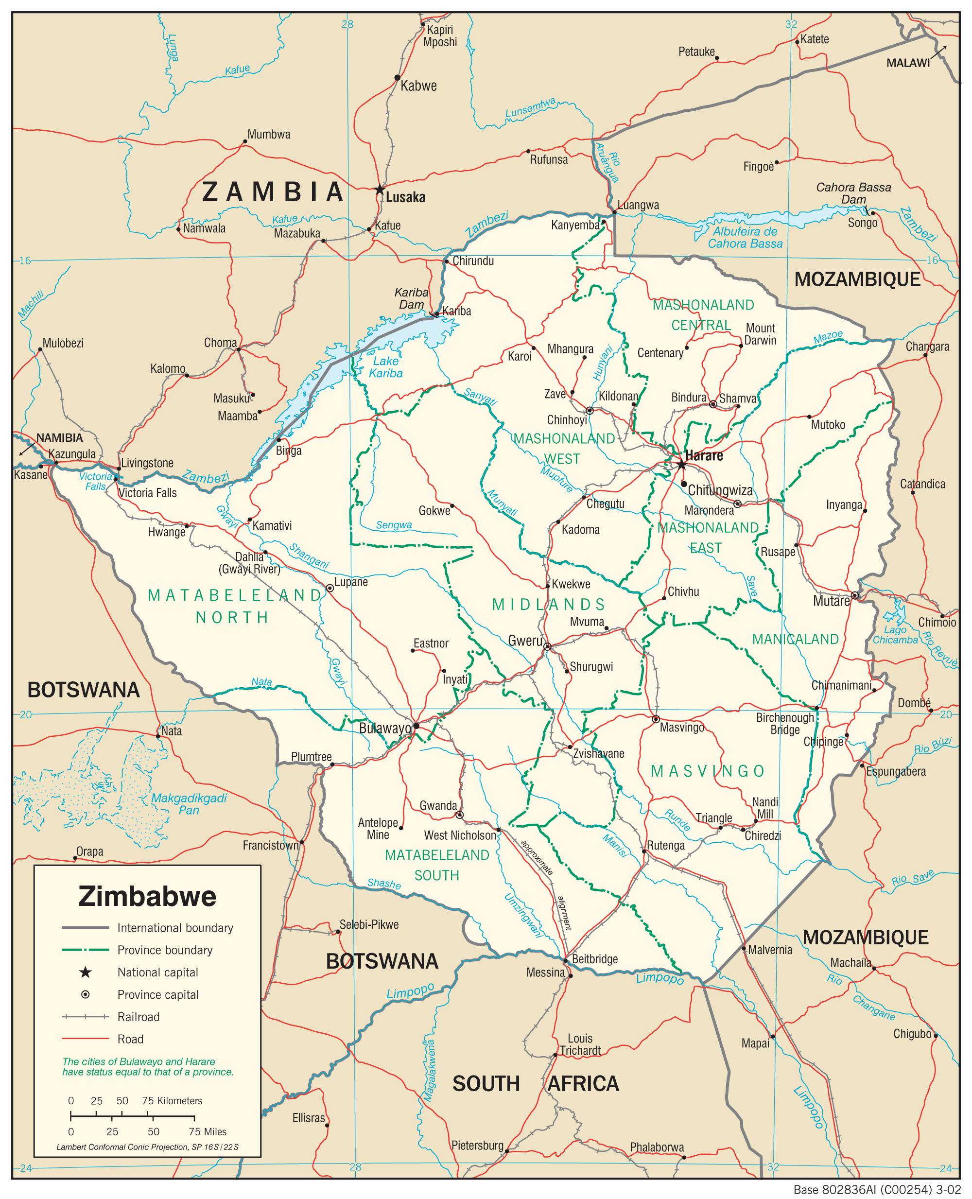 Transport system in Zimbabwe, 2002.